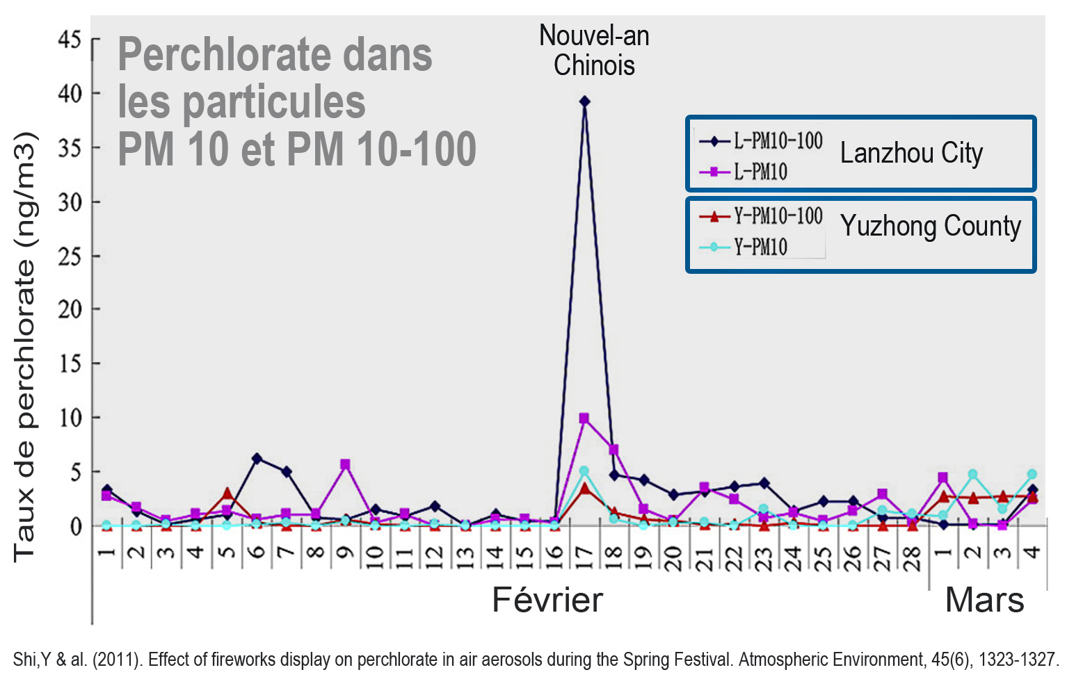 Perchlorate in air aerosol samples (Inhalable particulate matter (PM10) and larger particulate matter (PM10-100)) collected from two locations (Lanzhou City and Yuzhong County) in Gansu province over a month period (February 1rst to March 4th) during the Spring Festival (February 18th) in 2007 (in order to study the effect of fireworks display on perchlorate in air aerosol). From : Shi, Y., Zhang, N., Gao, J., Li, X., & Cai, Y. (2011). Effect of fireworks display on perchlorate in air aerosols during the Spring Festival. Atmospheric Environment, 45(6), 1323-1327.(abstract)